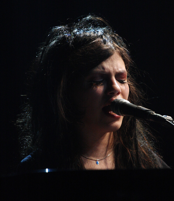 Soap&Skin* in Concert Friday 22 May 2009 @ Fri-son, Fribourg, Switzerland photo credit: vhf victor felder some rights reserved, license CC-BY-SA